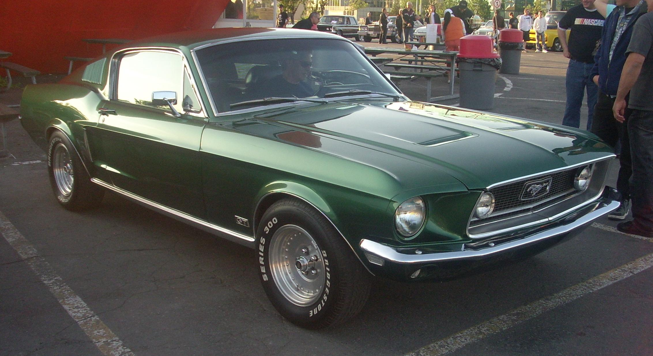 1968 Ford Mustang photographed in Montreal, Quebec, Canada at Gibeau Orange Julep.